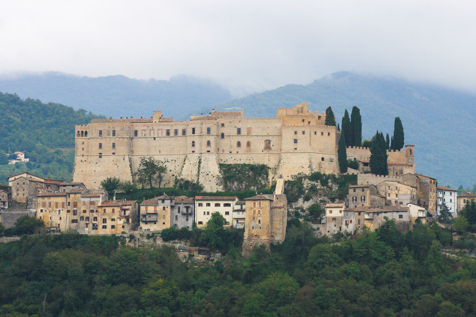 Sforza Cesarini Castle, Rocca Sinibalda, Latium, Italy